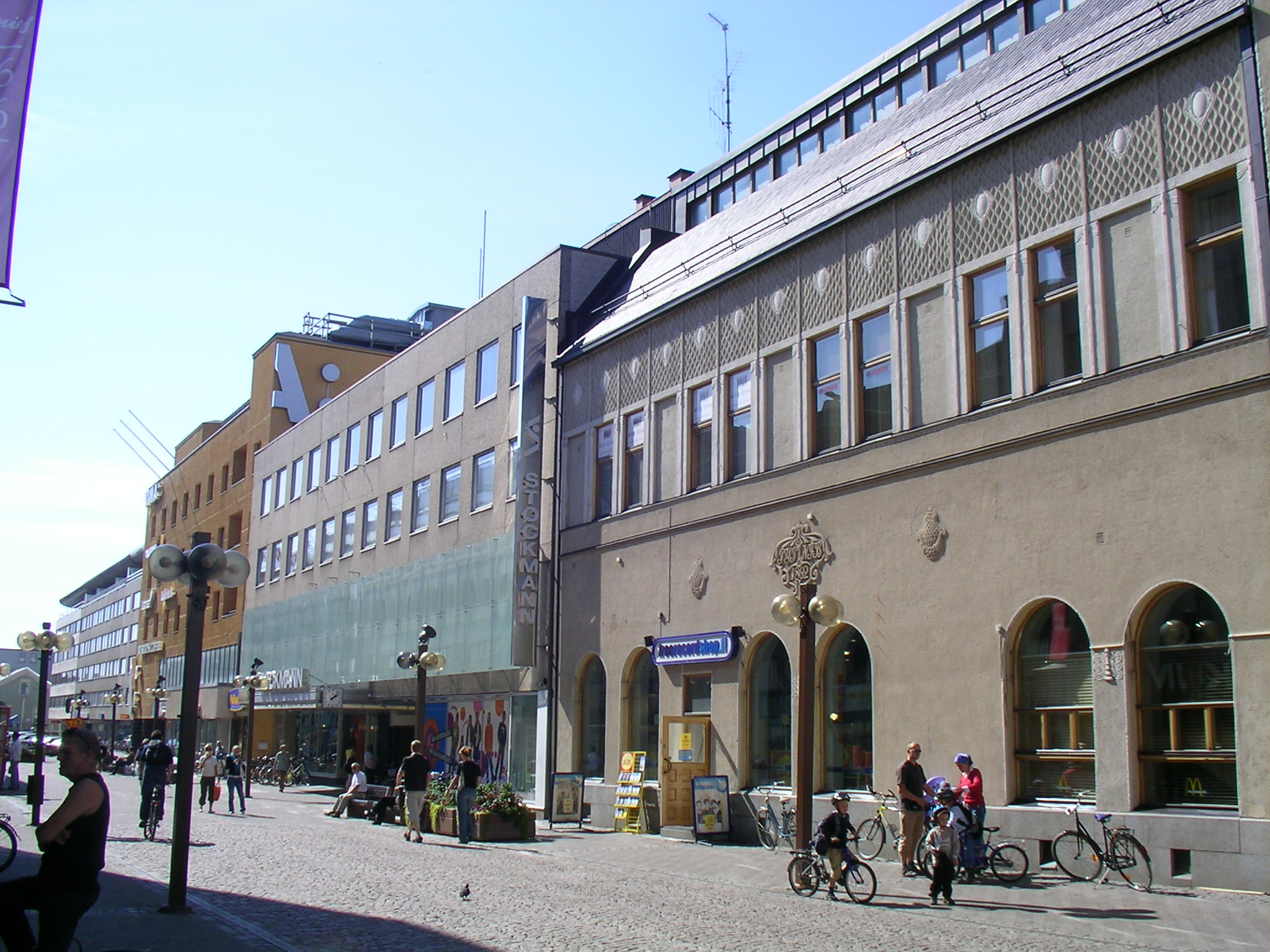 The Stockmann department store in the centre of Oulu, Finland.